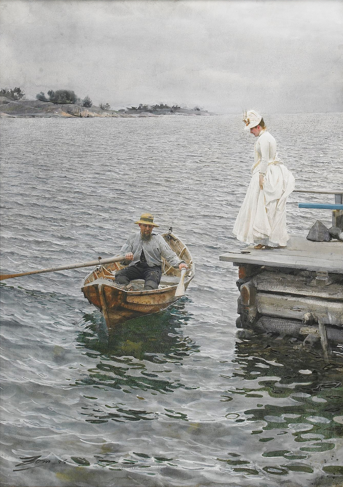 Sweden's priciest painting ever; sold at 26 million SEK on June 3, 2010. [1]